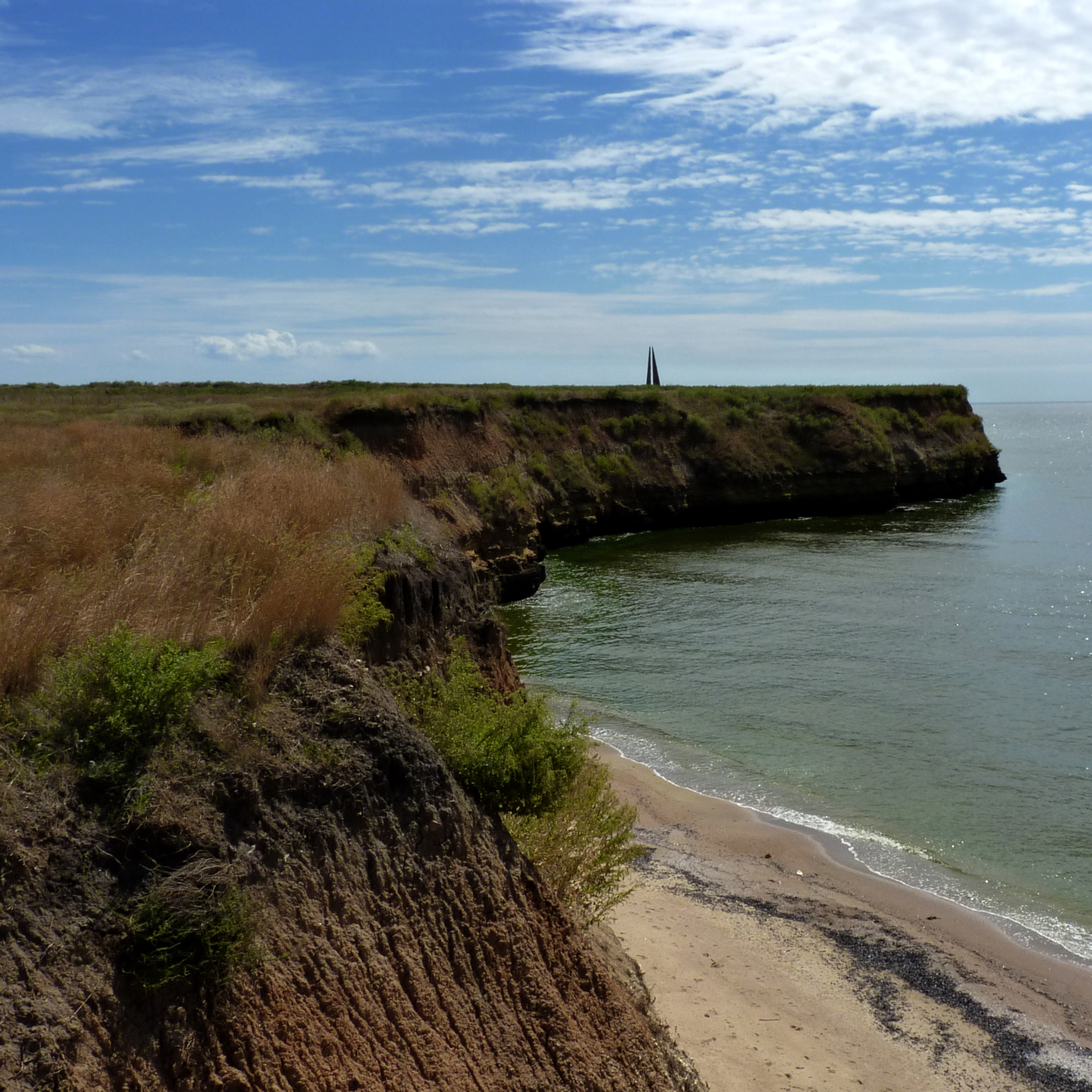 Berezan Island, Ukraine, with a view of the monument to Pyotr Schmidt